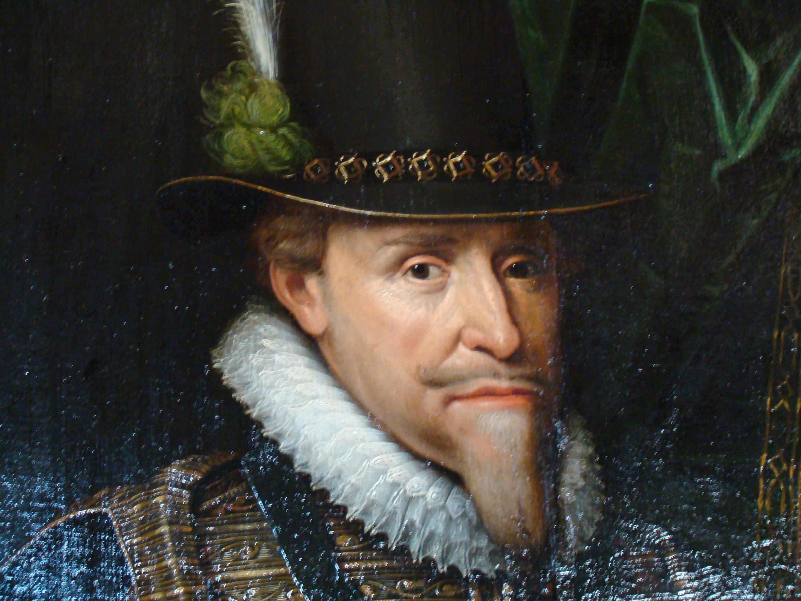 Maurice of Nassau, Prince of Orange detail of painting at the Royal Palace (Amsterdam). Schilder onbekend.